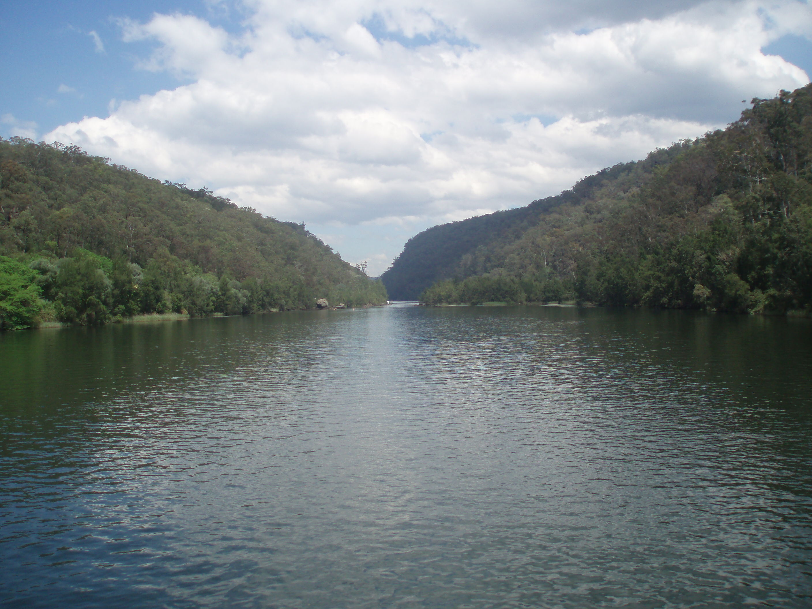 Nepean River at Penrith New South Wales. This section is called "The Narrows". Beyond here the river enters the Nepean Gorge.